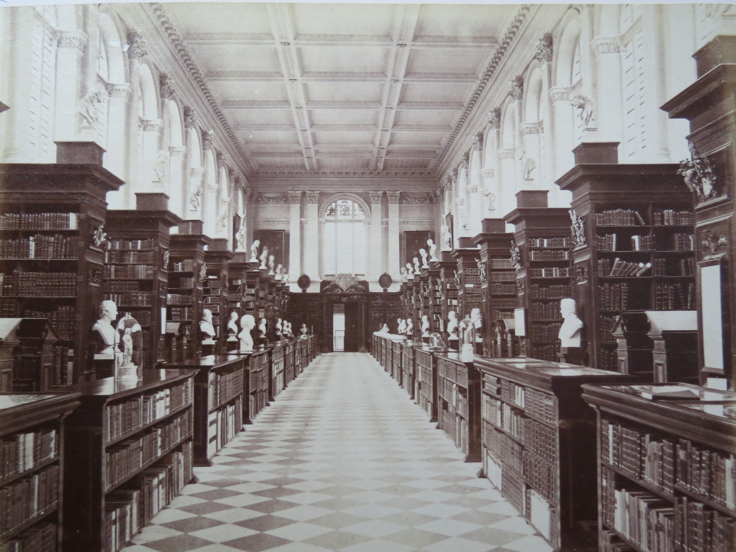 Wren Library, Trinity College, Cambridge University. Image taken from original albumen print from a bound album of 58 Cambridge University photographs. Original 19th century album in the possession of Kimberly Blaker, New Boston Fine and Rare Books.